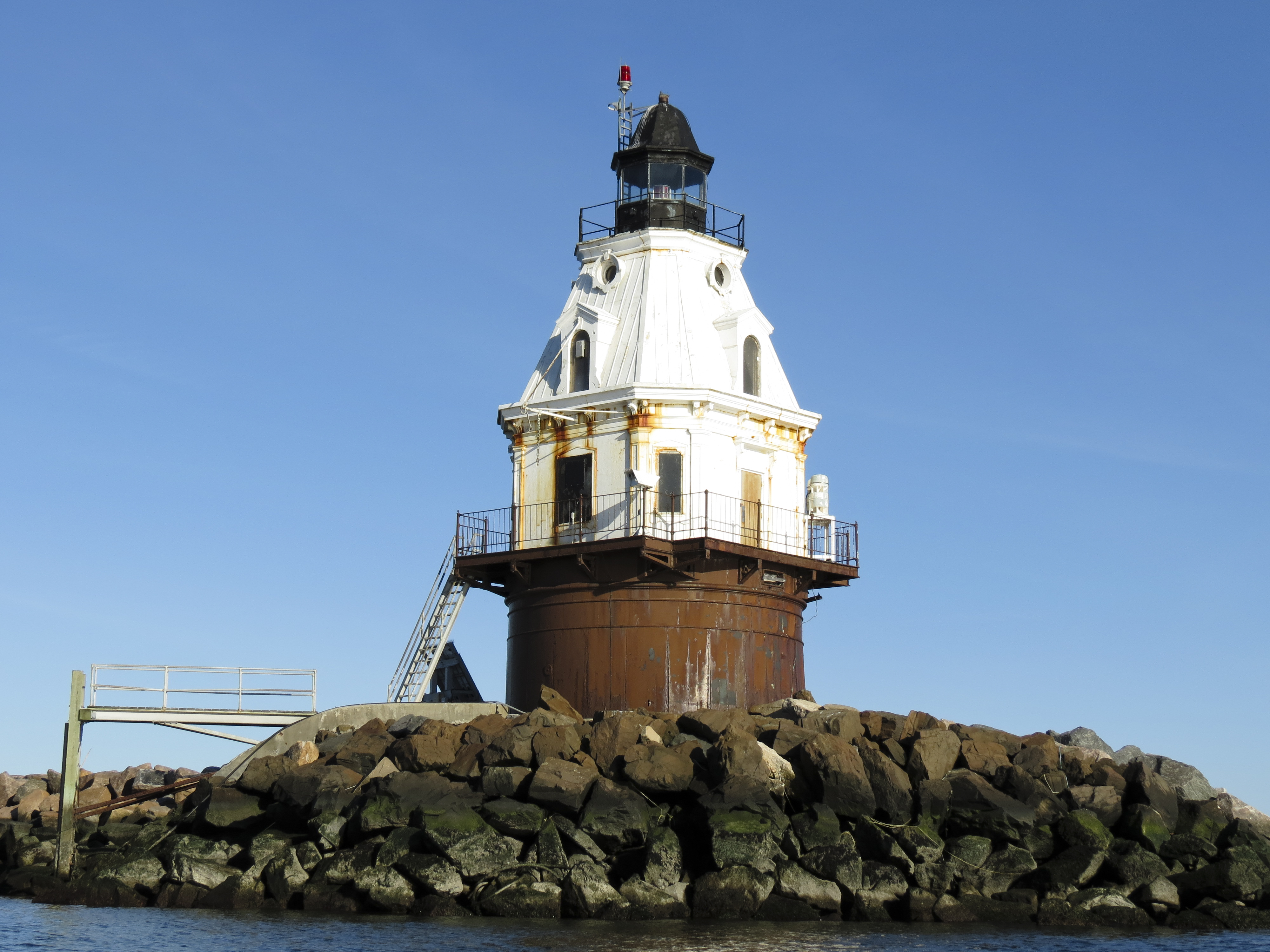 Southwest Ledge Lighthouse, entrance to New Haven Harbor